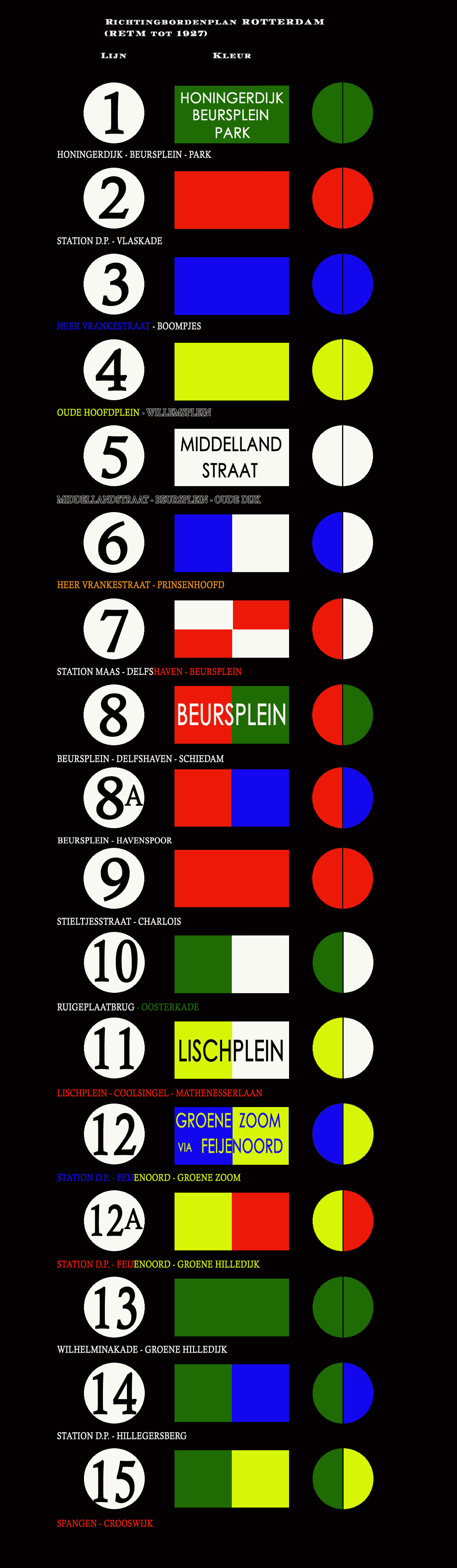 Routeplates Rotterdam, The Netherlands